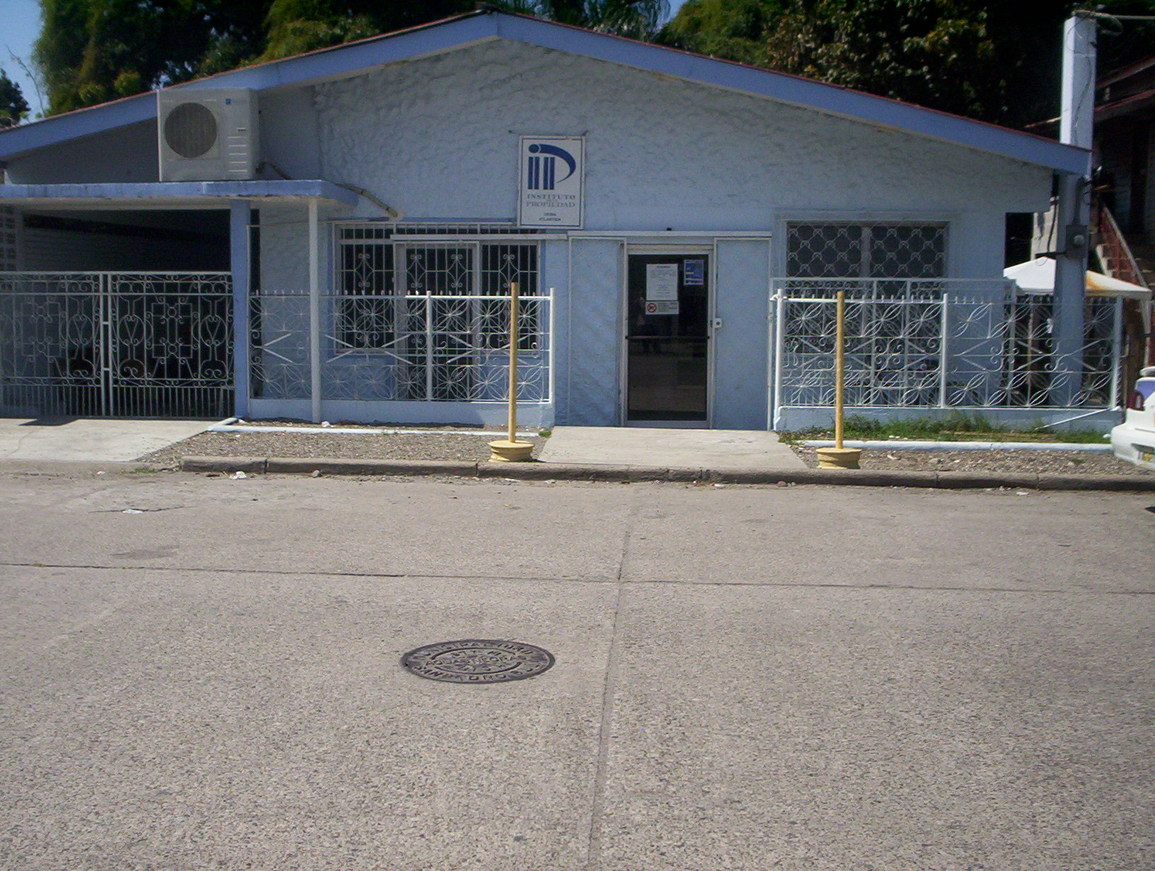 Land Registry Office for the Atlántida department in La Ceiba, Honduras